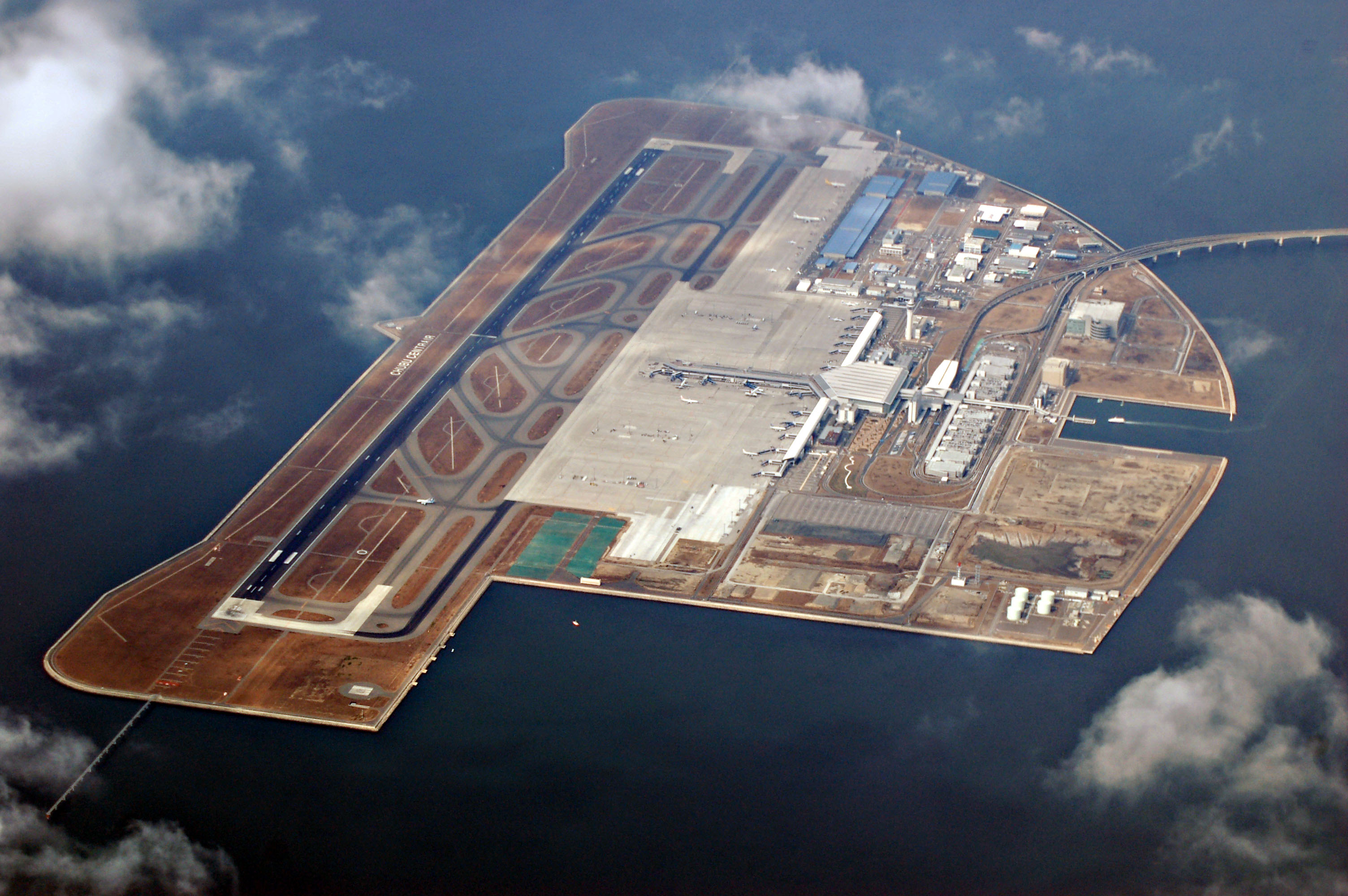 Aerial view of Chubu International Airport